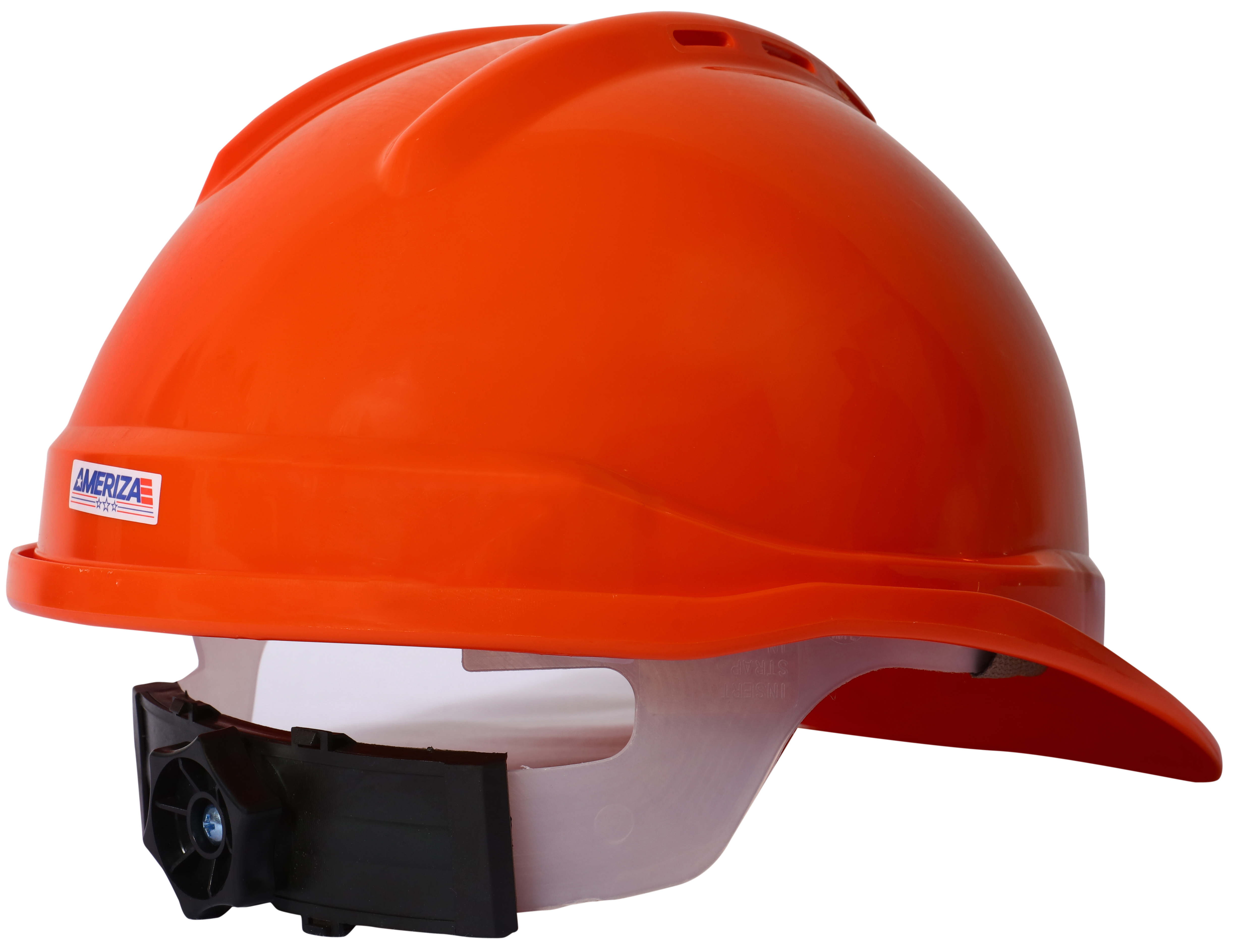 Ameriza safety ventilated helmet with 4 points ratchet textile suspension with a foam sweatband, short brim for a broader field of view.